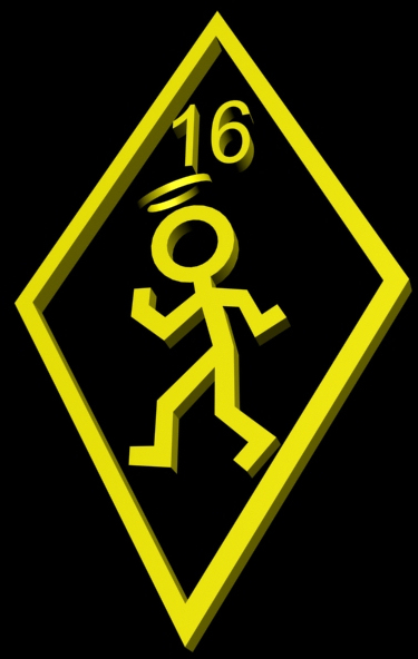 16 Squadron saint logo